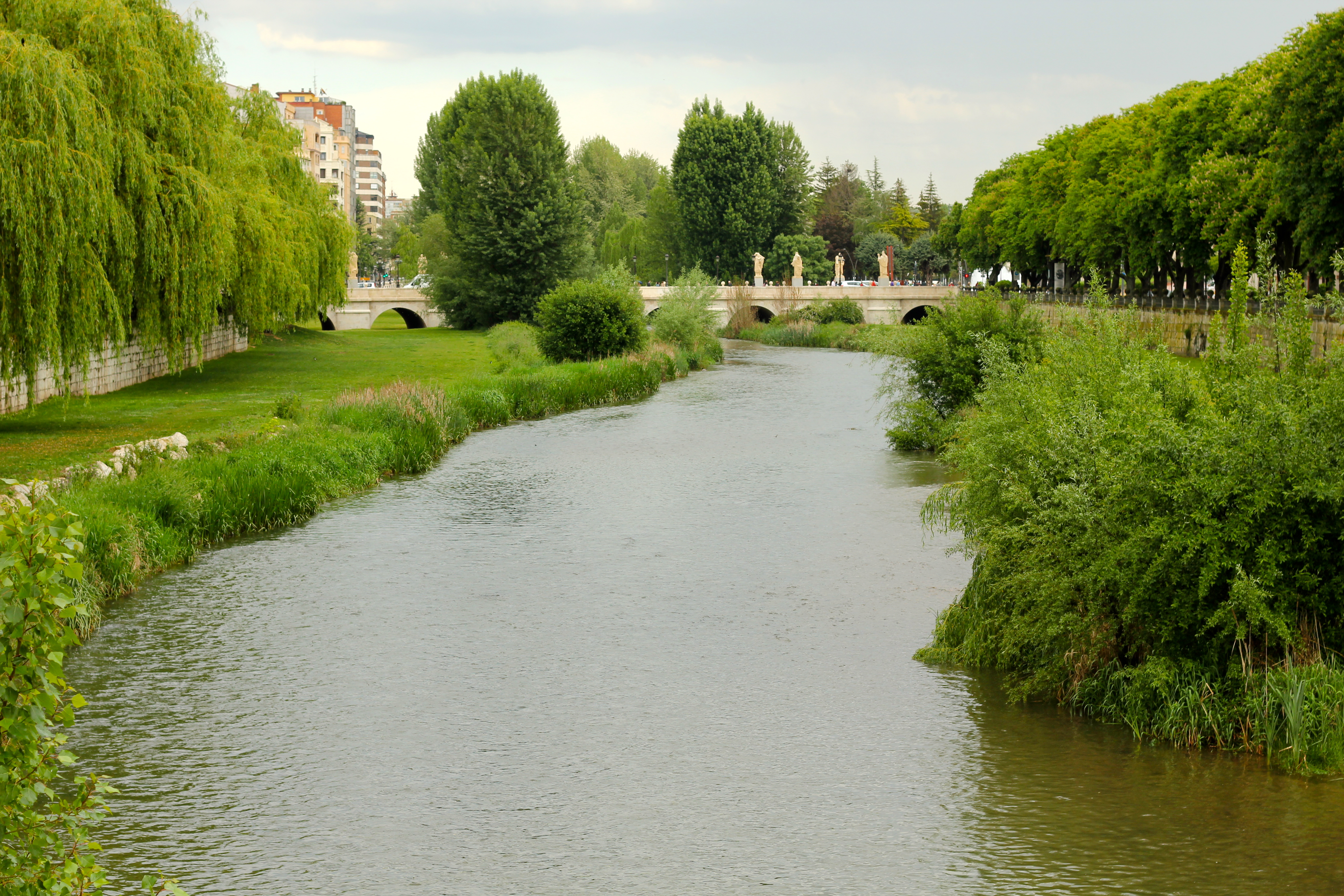 The River Arlanzon passing through the city of Burgos, Spain in spring time.